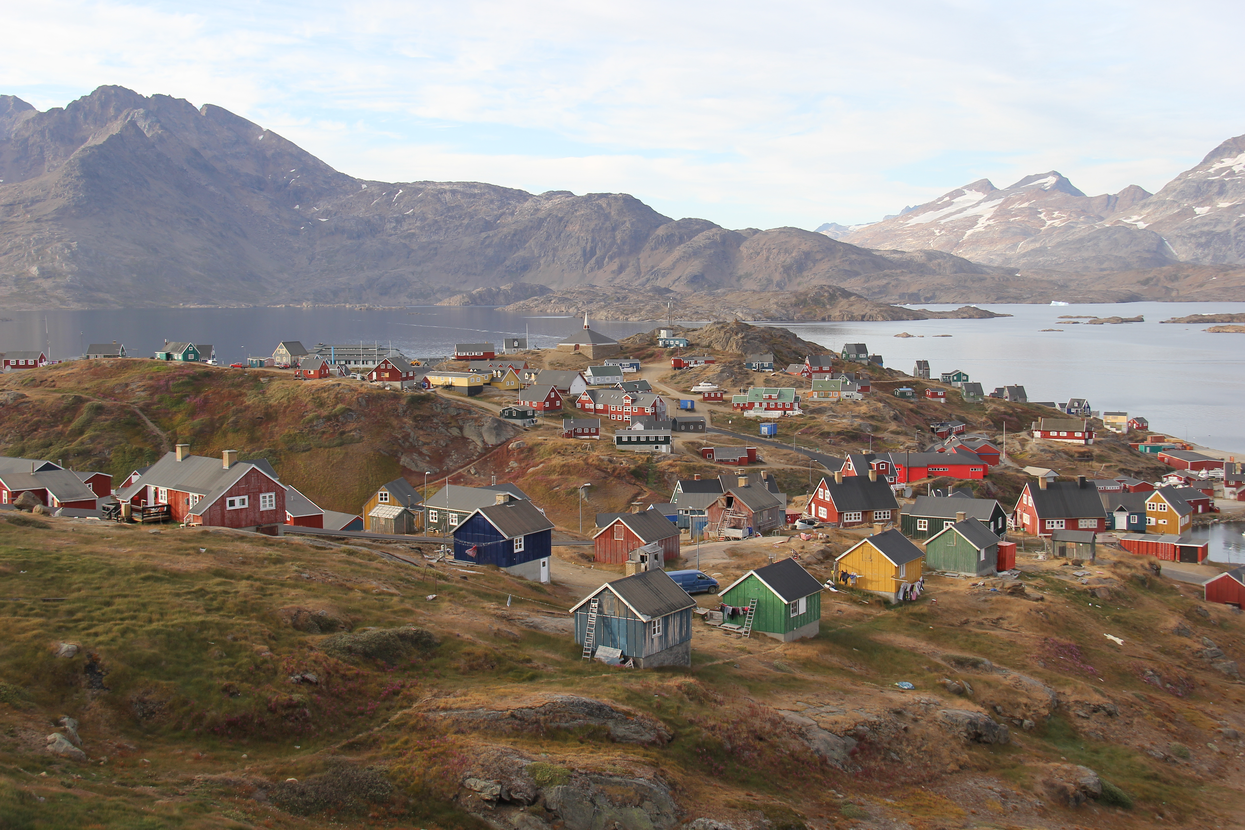 Tasiilaq, view of the middle of the town, seen from outside the hotel